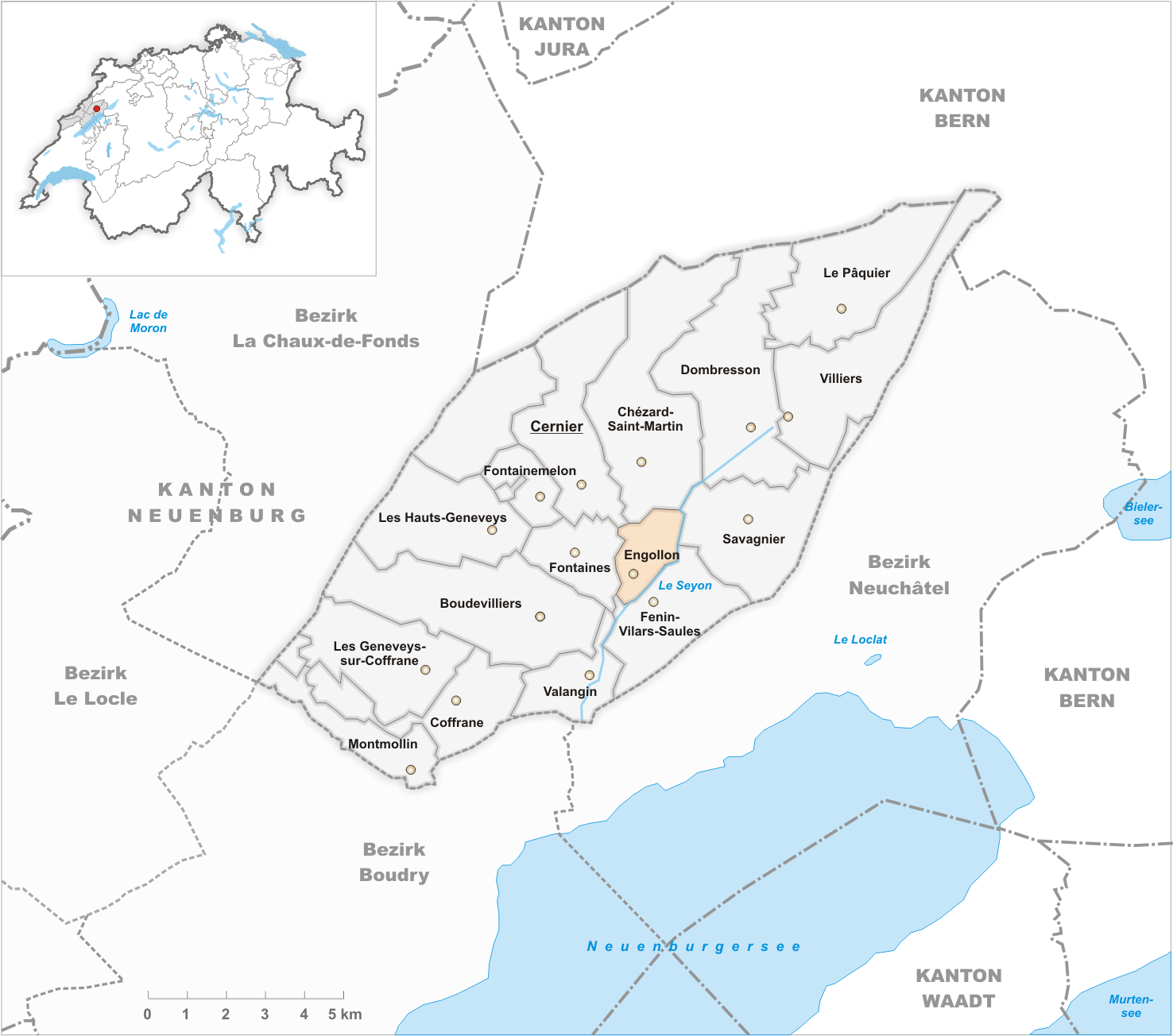 Municipality Engollon